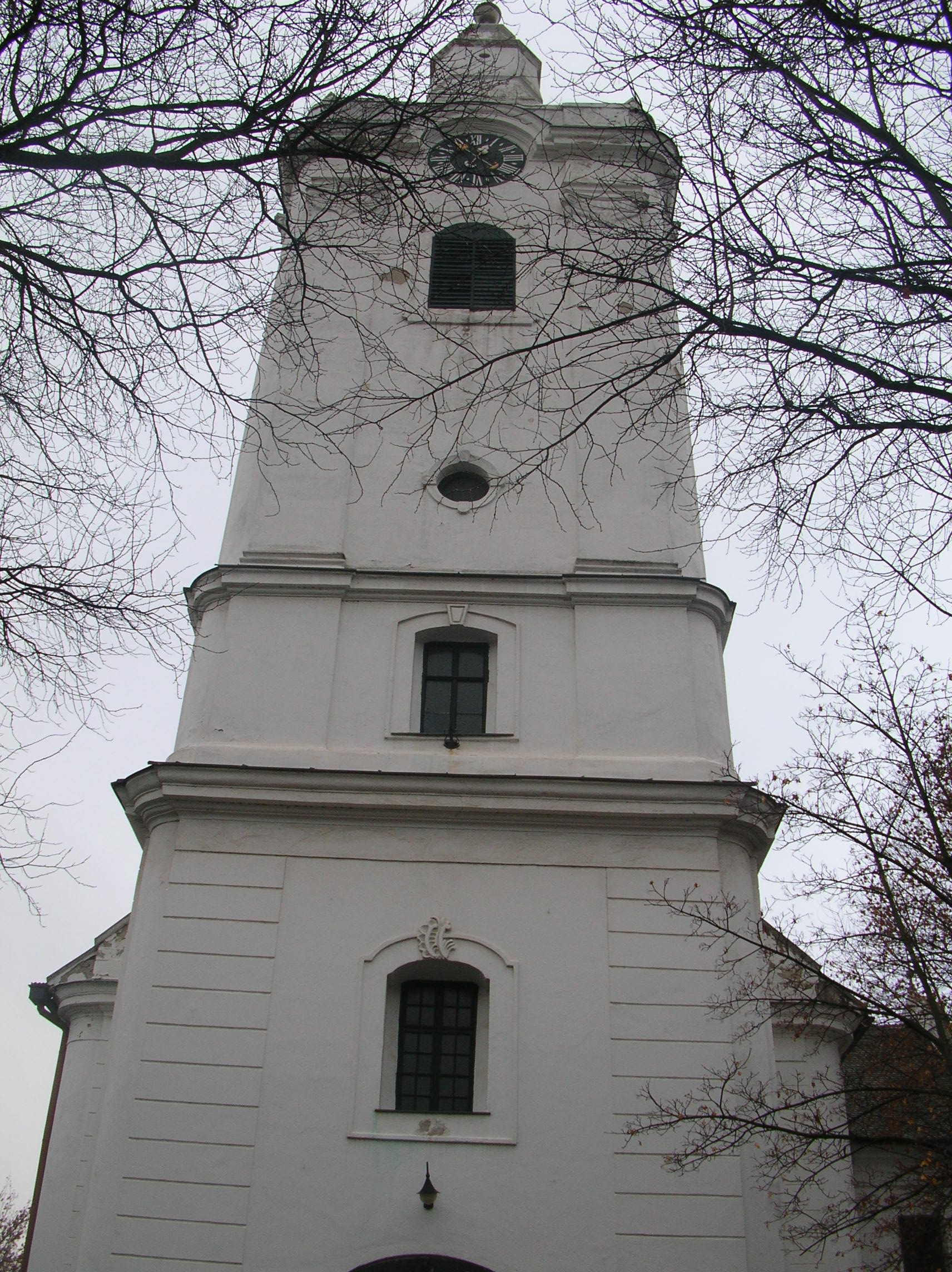 The bell tower of the old reformed church in Makó.